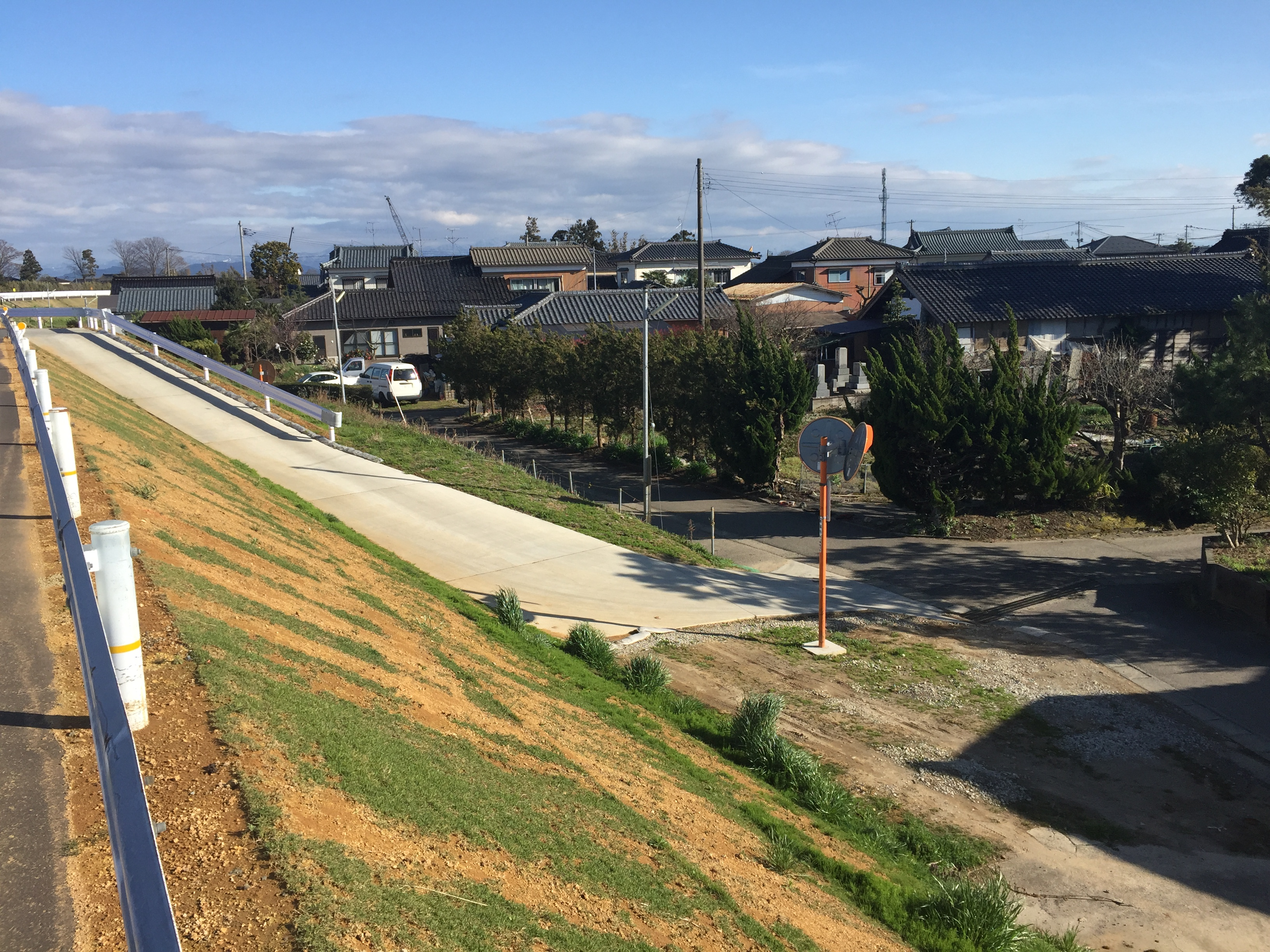 Remains of Niigata Kotsu Railway Itai Station, which was abolished on 4 April 1999